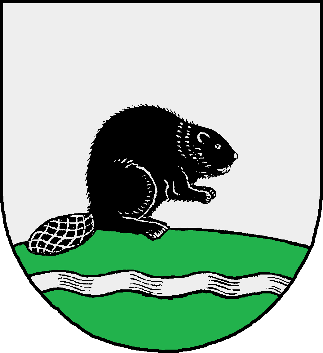 Coat of arms of the municipality Bevern in Schleswig-Holstein, Germany.